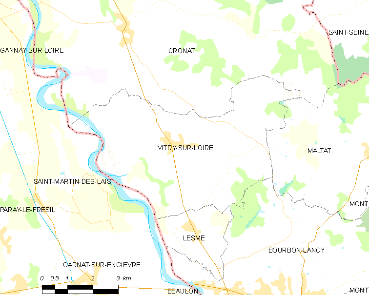 Map of French municipality